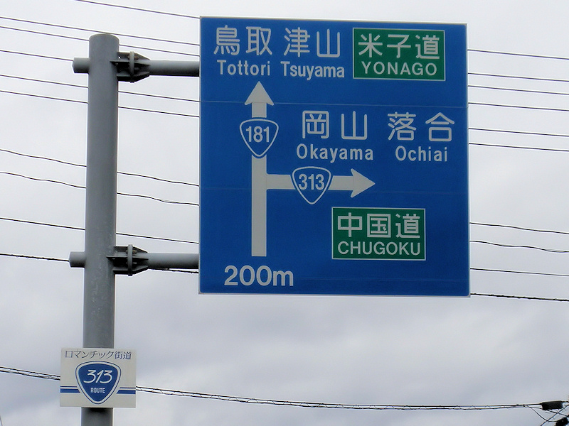 The sign of the Romantic Road 313, Japan.